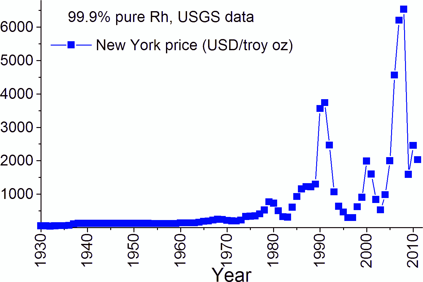 Rh price, New York, in current dollars (i.e. not adjusted for inflation)